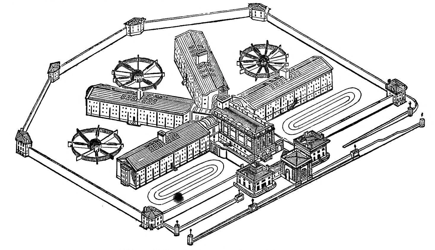 Isometrical perspective of Pentonville Prison, 1840-42, engineer Joshua Jebb. Report of the Surveyor-General of Prisons, London, 1844. Image reproduced in Mayhew, Criminal Prisons of London, London, 1862 Joshua Jebb from Derbyshire. Sir Joshua Jebb ( 8 May 1793 ? 26 June 1863 ) was a military engineer and the British Surveyor-General Jebb was also involved in designing prisons and related buildings, including: Broadmoor Hospital , a secure mental hospital in Crowthorne in Berkshire. Here we see Pentonville prison.